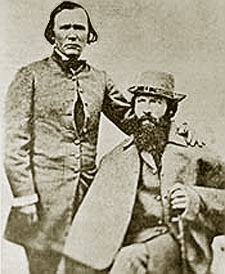 19th century photo of Kit Carson and John Charles Fremont